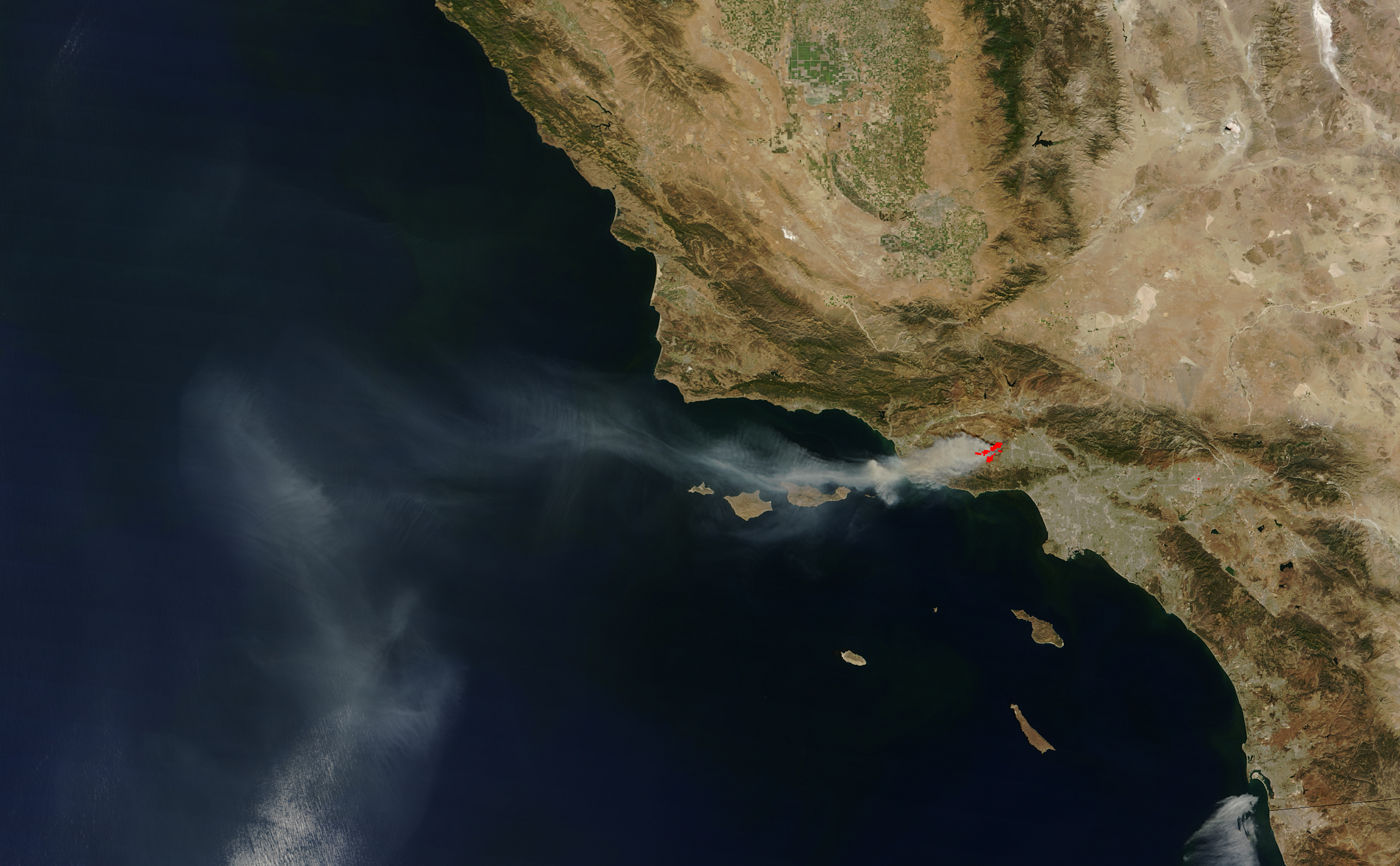 On September 28, 2005, a brushfire ignited northwest of Los Angeles, California, which was named the Topanga Fire. Growing to more than 16,000 acres in around 2 days, the blaze threatened homes, natural resources, power lines, and communications equipment in the Thousand Oaks region north of the Santa Monica Mountains. This image of the Topanga Fire was captured by the Moderate Resolution Imaging Spectroradiometer (MODIS) on NASA’s Terra satellite on September 29, 2005. The actively burning part of the fire that MODIS detected is outlined in red. Although the wind, dry conditions, and steep terrain have made the work of firefighters difficult, so far the loss of property has been low; according to news reports from Friday, September 30, one home and handful of outbuildings had been lost. Mandatory evacuations were in place, involving at least 1,500 residents of the area. Calmer winds on Friday might help firefighters gain better control of the blaze, which the National Interagency Fire Center was reporting as 12 percent contained as of Friday morning, September 30. The image is shown at MODIS’ maximum spatial resolution of 250 meters. The MODIS Rapid Response System provides this image at additional resolutions.